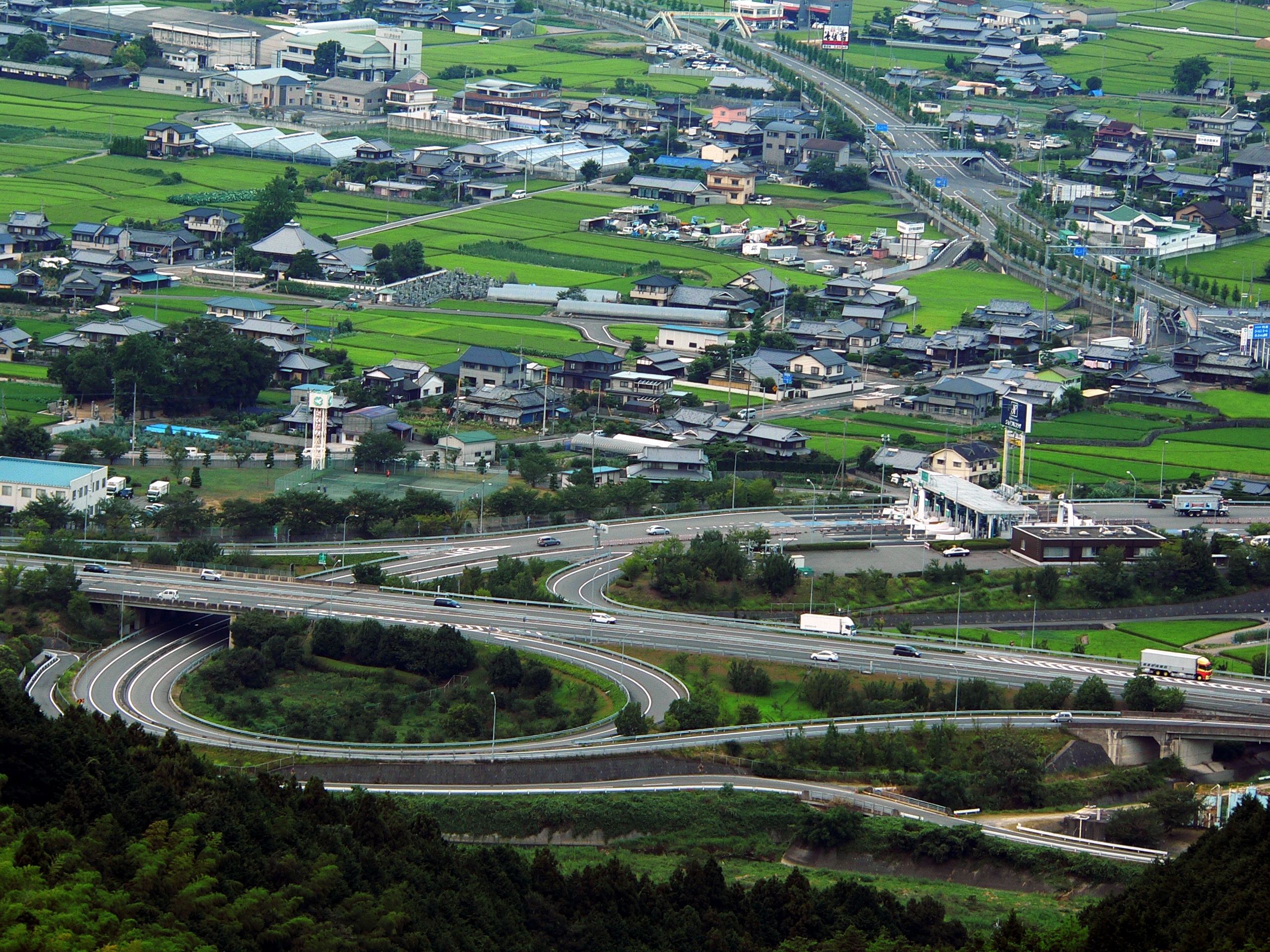 Kawauchi Interchange in Toon-shi, Ehime pref., Japan.